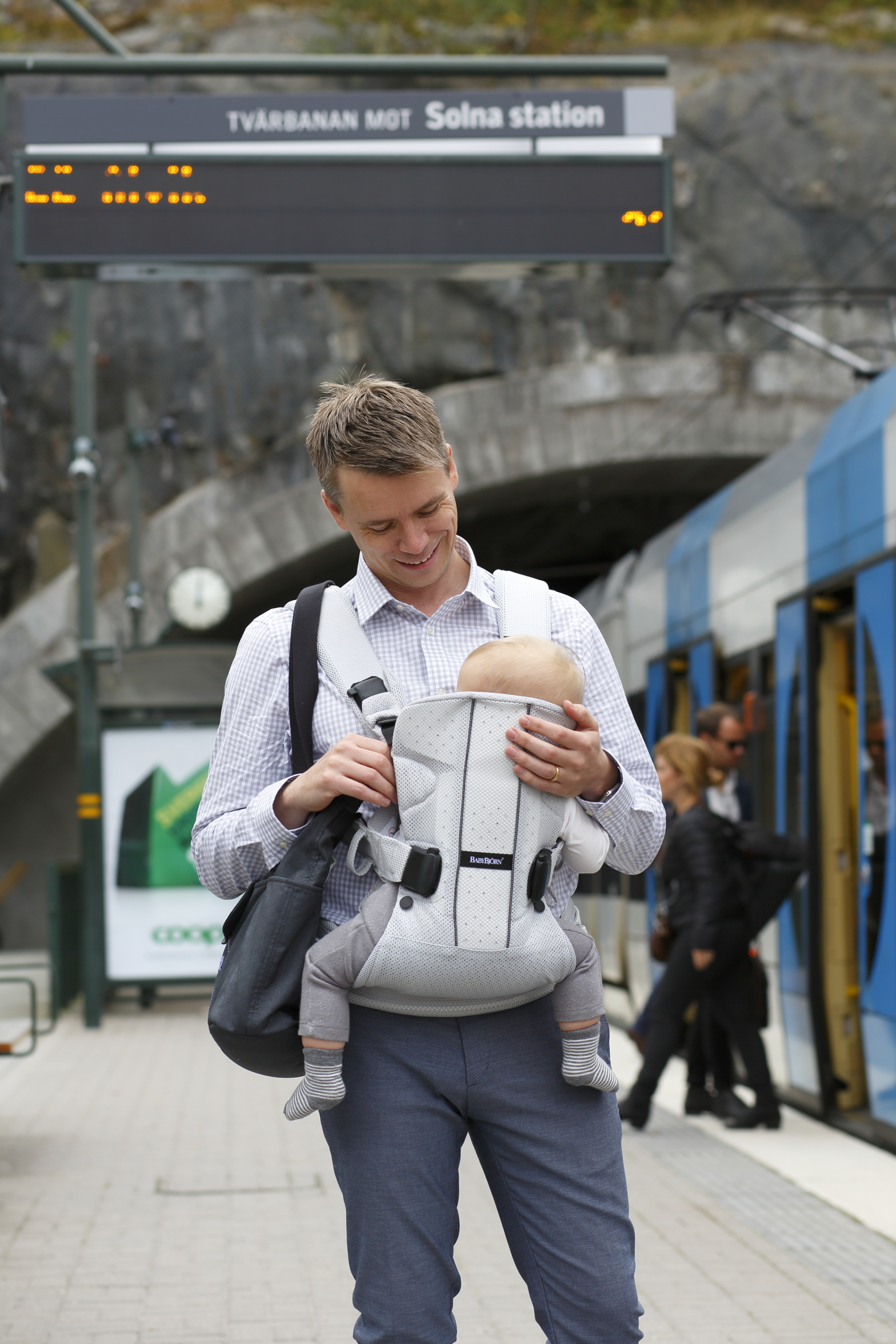 A Stockholm dad with his daughter in a BabyBjörn baby carrier.